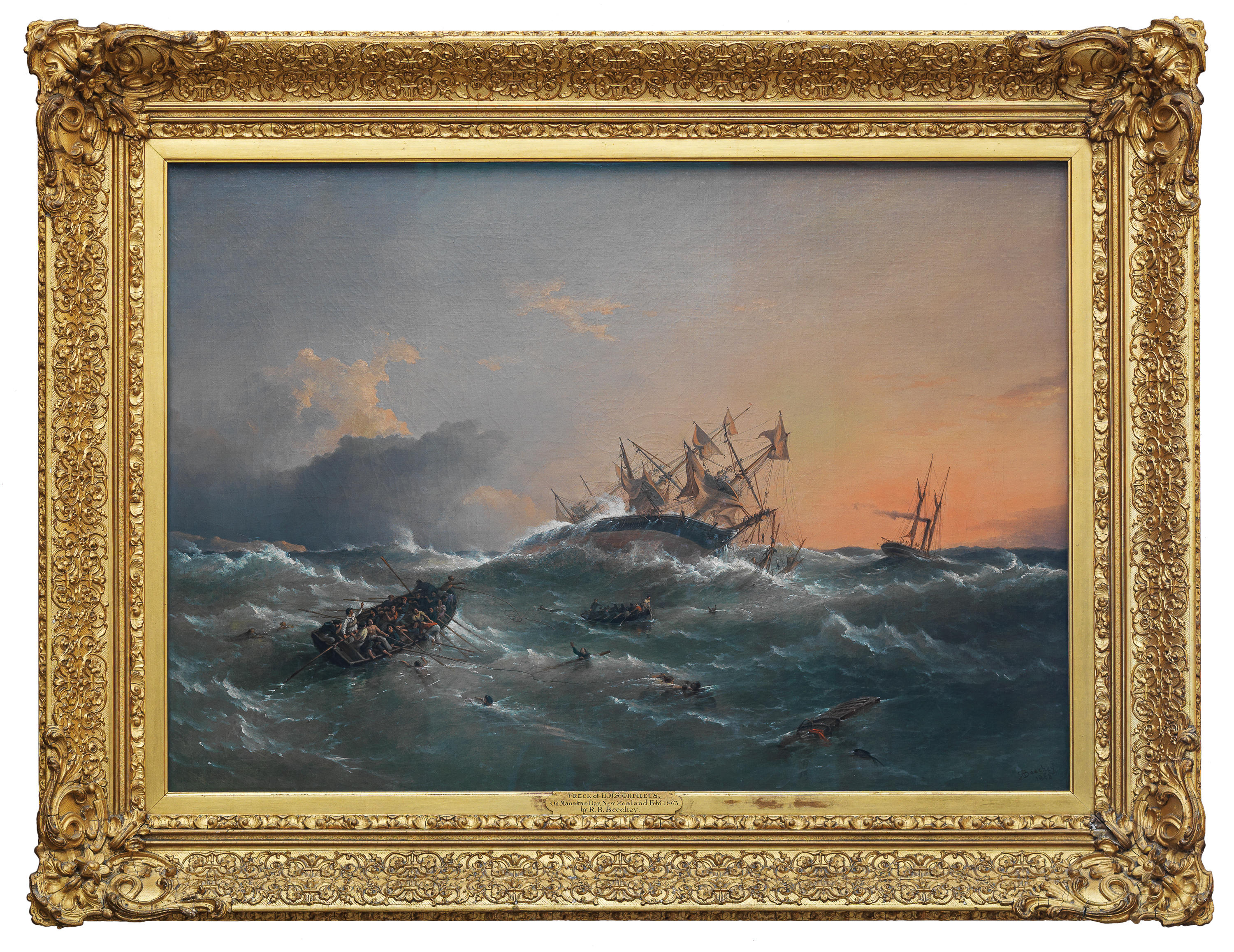 painting depicting the February 1863 shipwreck of HMS Orpheus in Auckland, New Zealand.